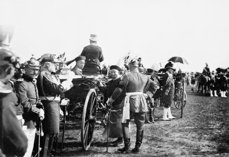 The Imperial German Army 1890 - 1913 Prince Chun of China in his carriage during a visit to the manoeuvres of 1901. Following the German suppression of the Boxer Rebellion in Peking, the Prince came to Germany to formally apologise to the Kaiser for the murder of the German Minister von Ketteler in Peking on 19 June 1900.